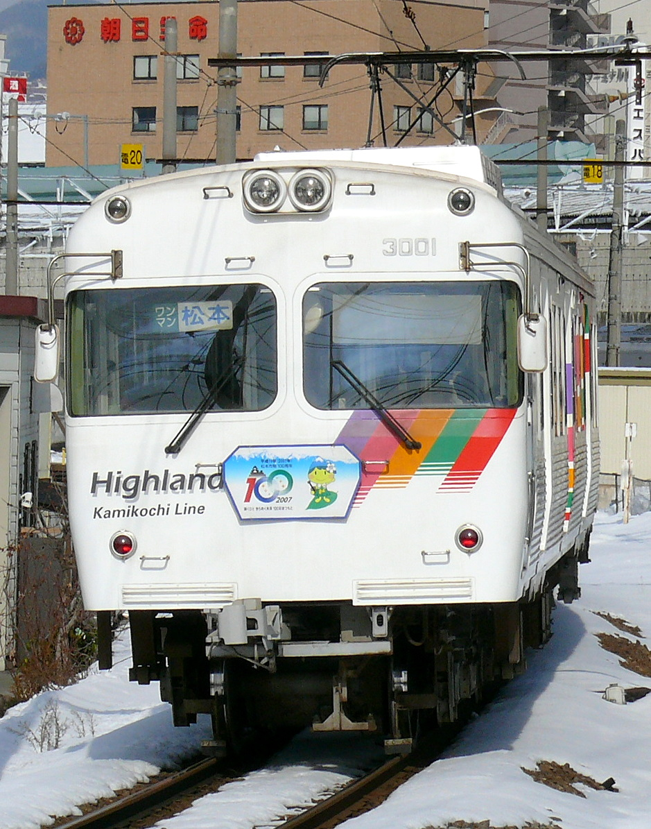 Matsumoto Electric Railway Type 3000（3001-3002）Train(Japan).